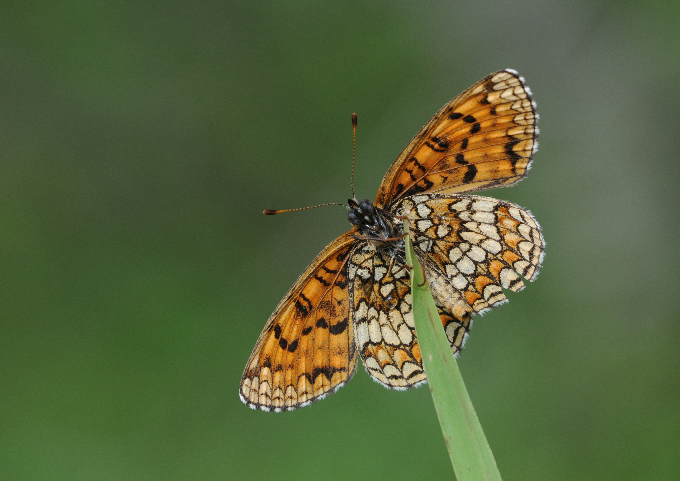 Wing underside view of an Assmann's Fritillary (Melitaea britomartis). Dereköy, Kırklareli - Turkey.